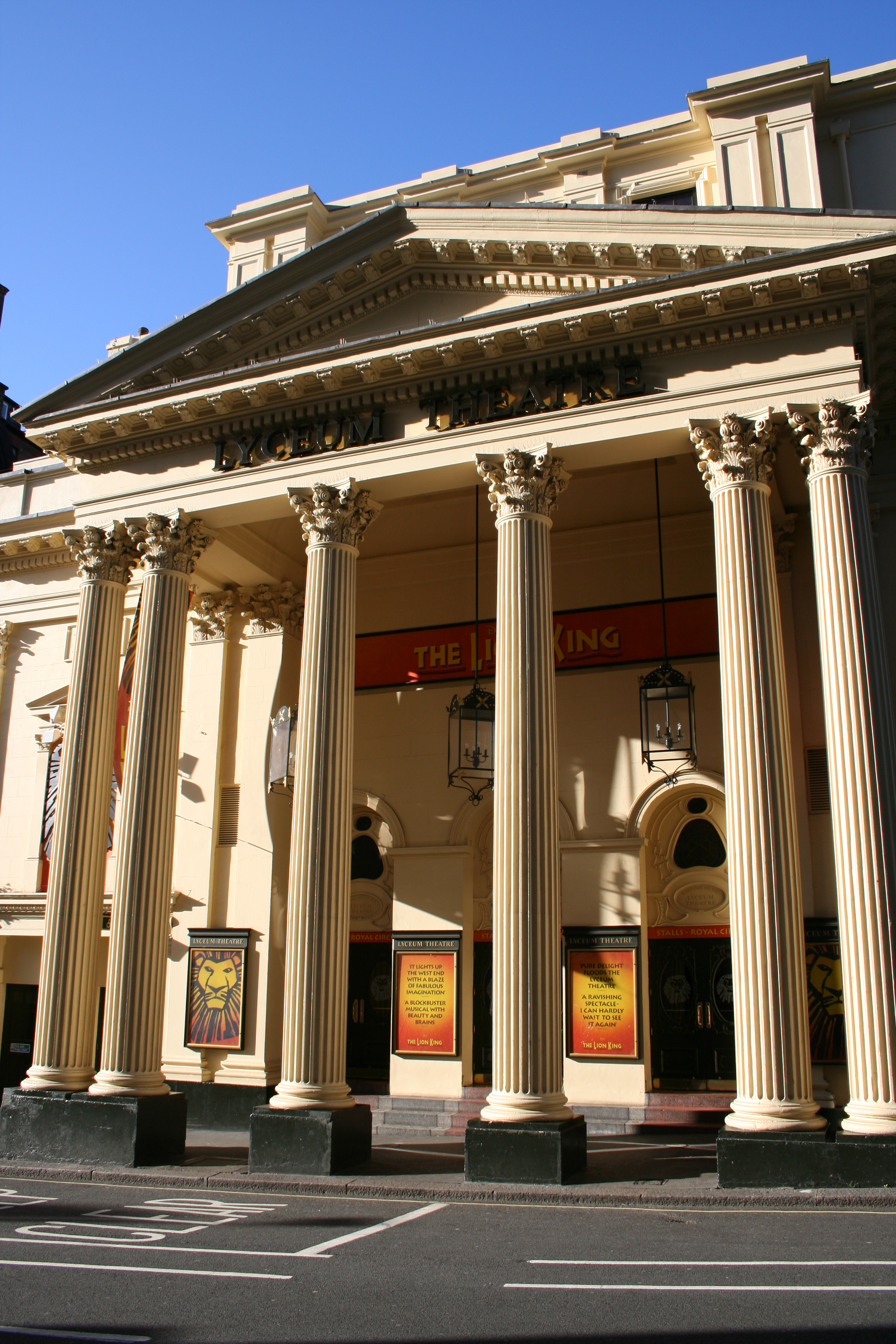 A view of Lyceum Theatre front in London